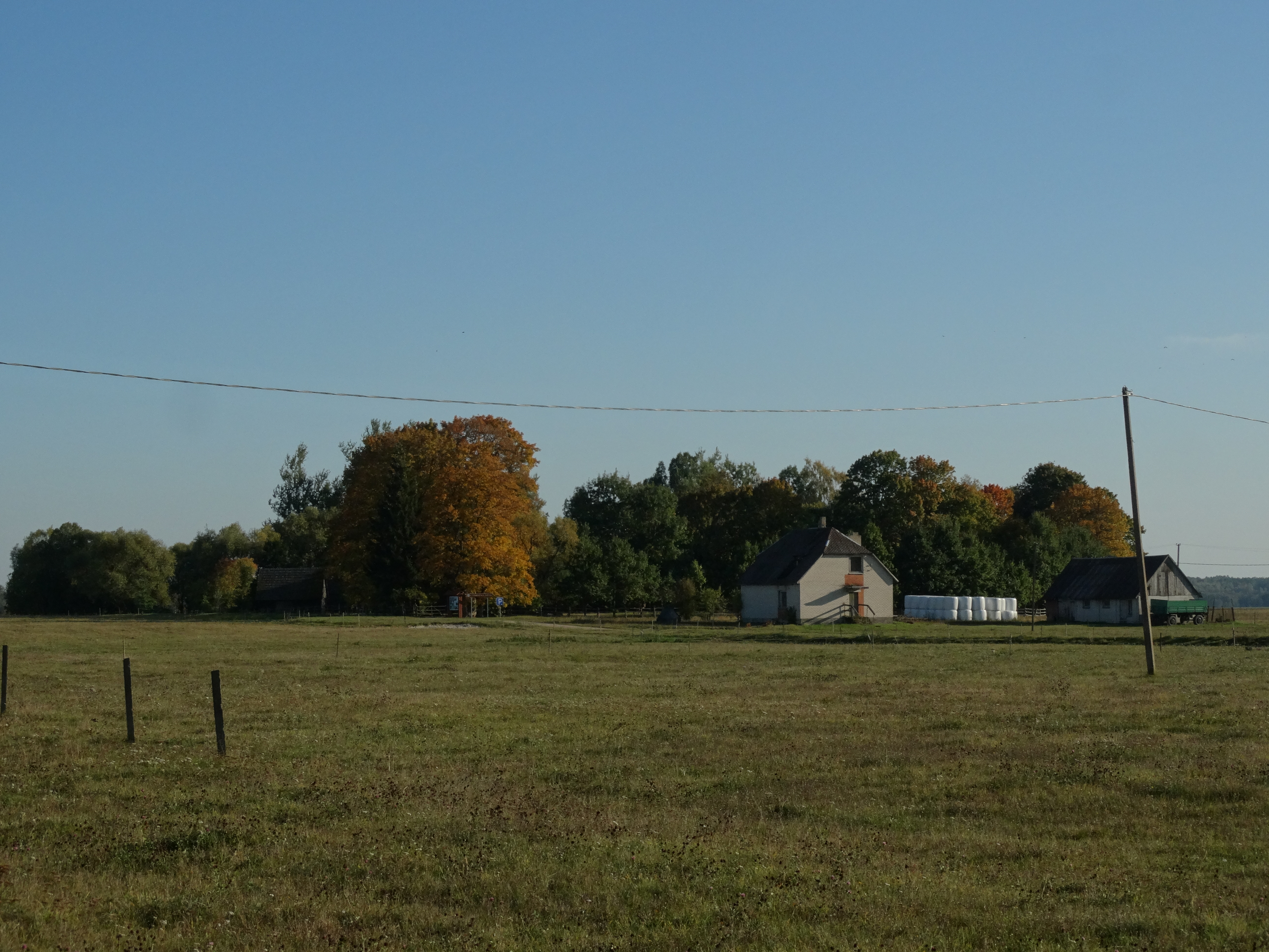 Kanopėnai, Raseiniai district, Lithuania